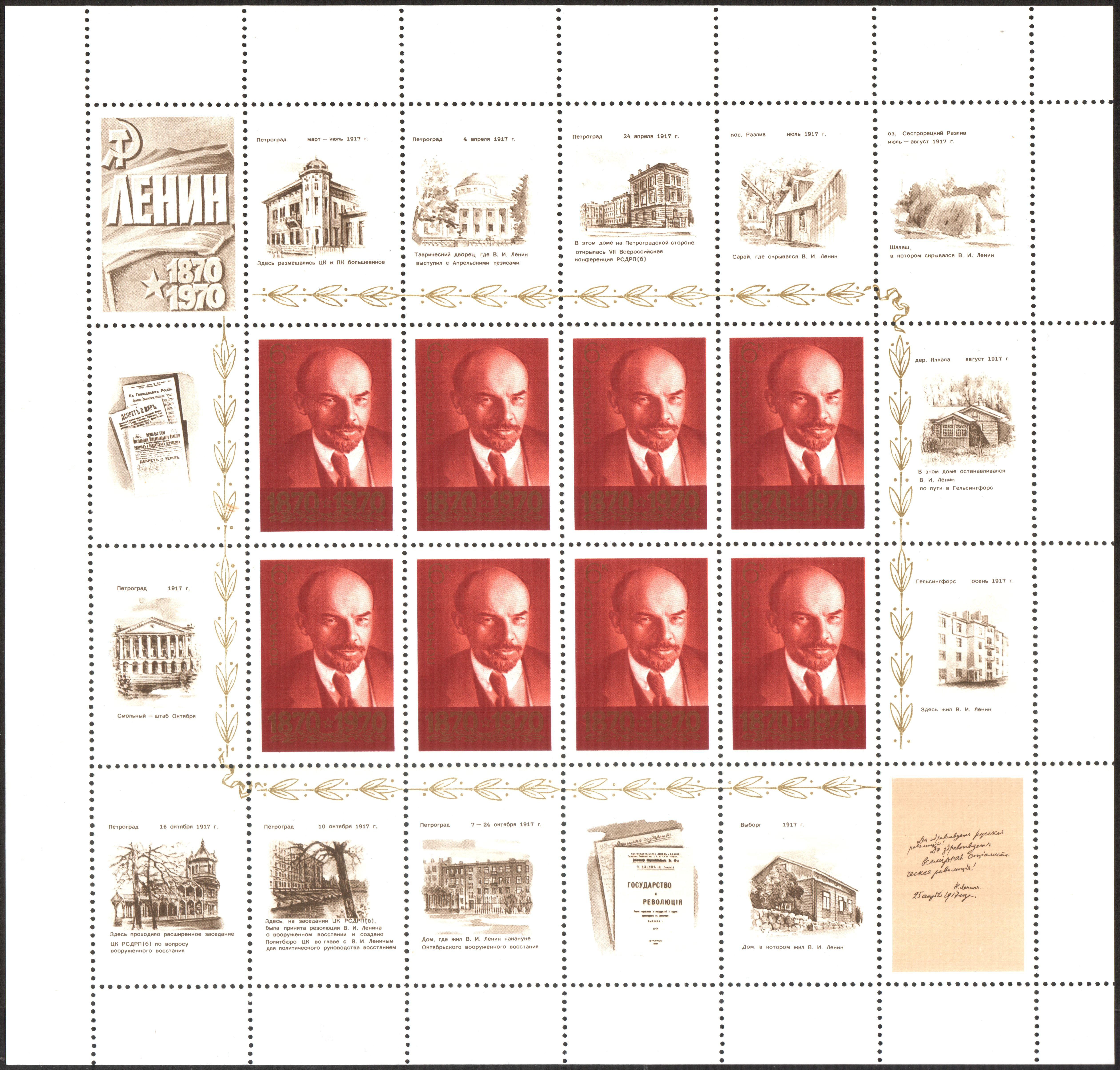 USSR stamp: Lenin, 1918 (Photo of M. S. Nappelbaum) with 16 labels Preparation of October armed revolt (see Lenin, 1918). Series: Centenary of Birth of Vladimir Lenin (1870-1924). Portraits of Lenin